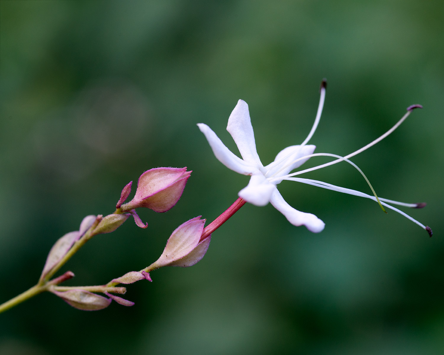 Clerodendrum trichotomum (Harlequin Glorybower) open flower